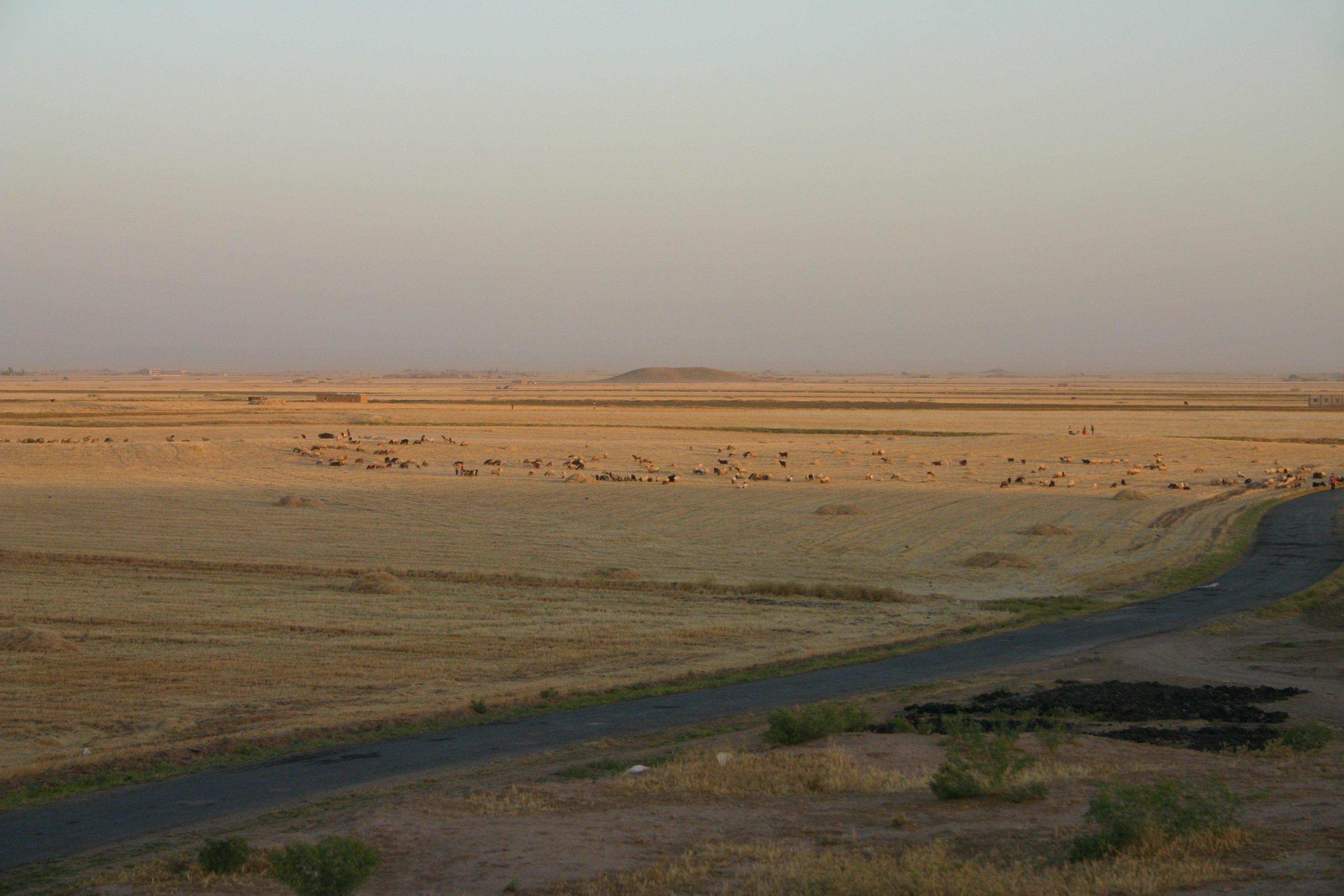 Farmland in the Khabur Triangle area of the Jezirah, Syria.